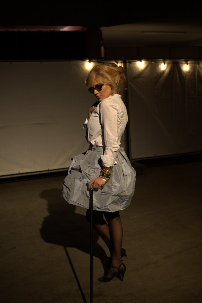 Melody Gardot posing in a skirt, holding a cane.